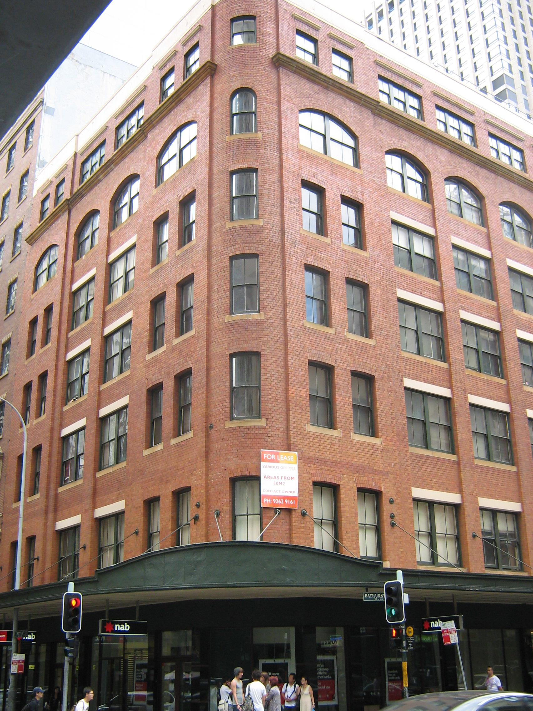 the Speedwell bicycle factory cnr Pitt and Bathurst streets opened in 1908 as it is in 2011. a depiction of this building appears on the makers decal on bicycles made up till approx 1955